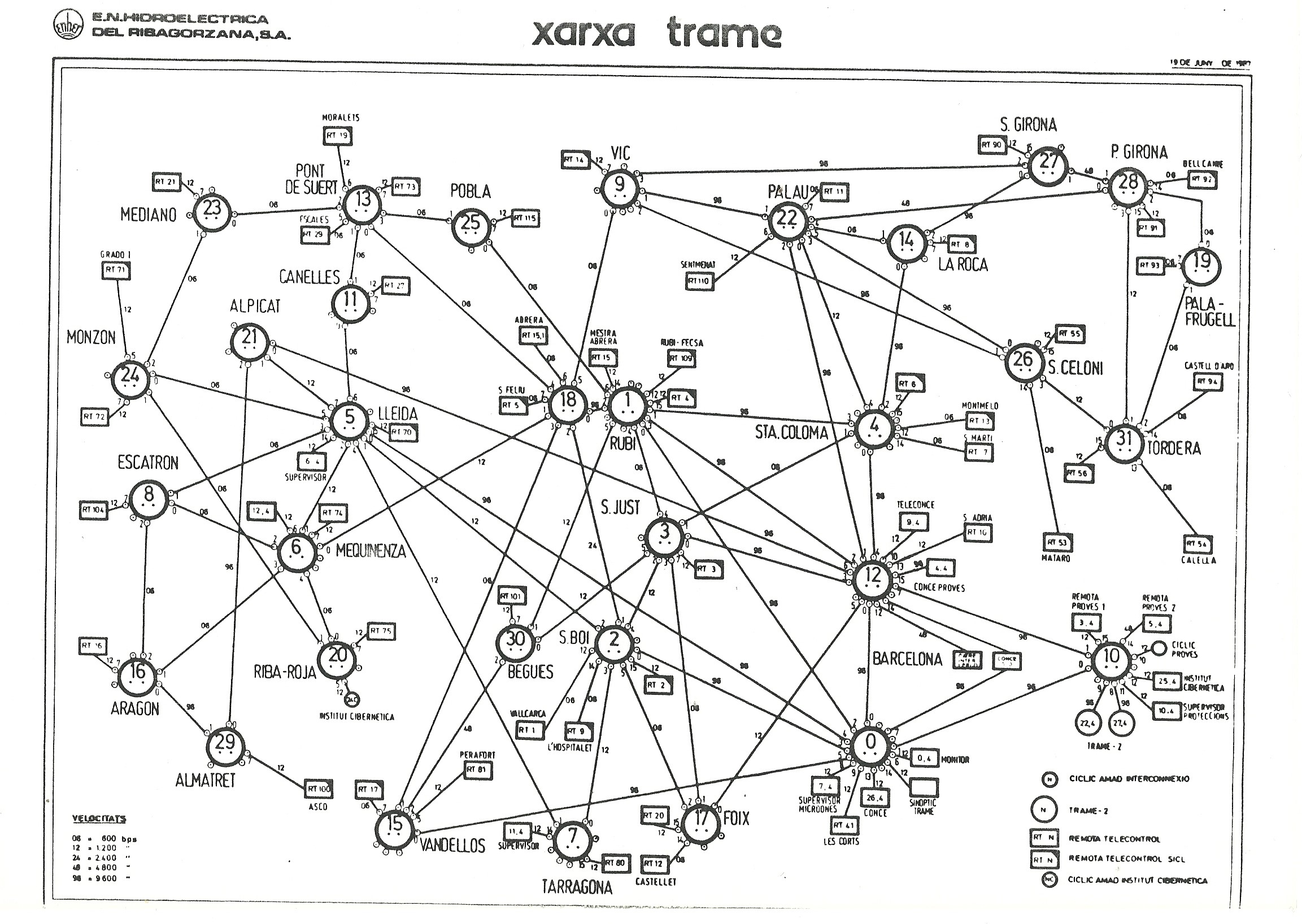 Drawing the TRAME packet switching network by 1987